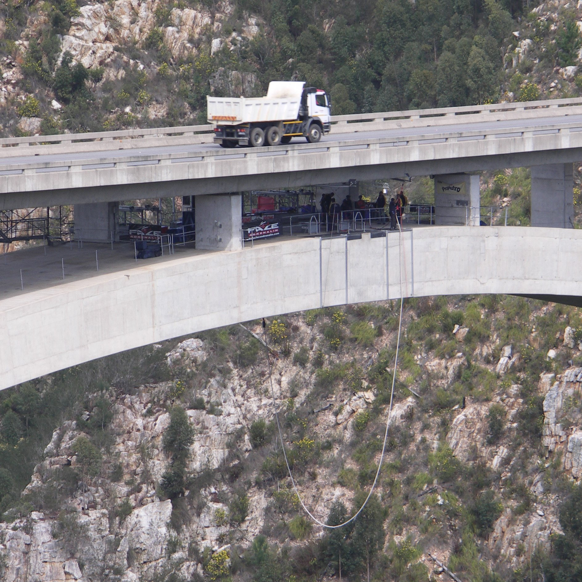 Bungee Operations under the main road deck of the Bloukrans Bridge